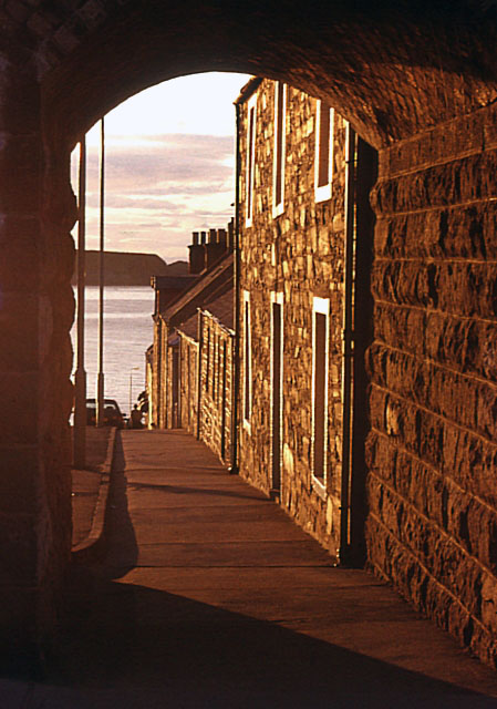 Seafield Street, Cullen, Moray, Great Britain: a glimpse through the small side arch of the railway viaduct across Seafield Street.